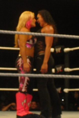 Natalya and Tamina at a WWE World Tour in Puerto Rico.